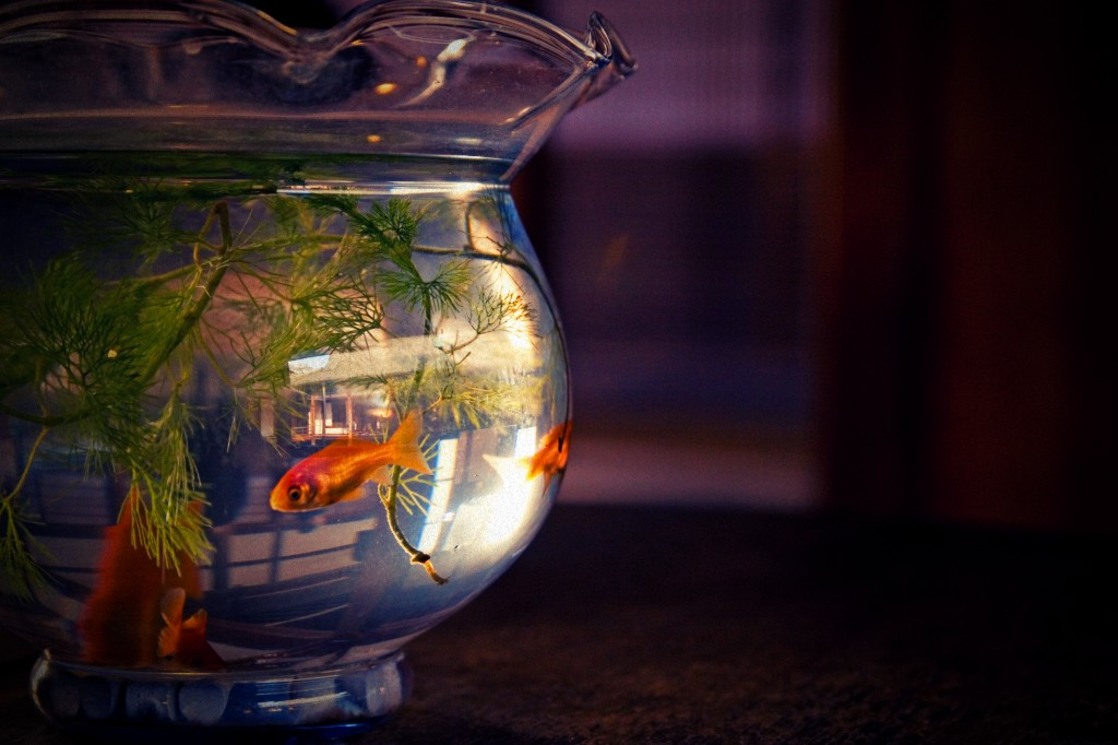 The fish bowl